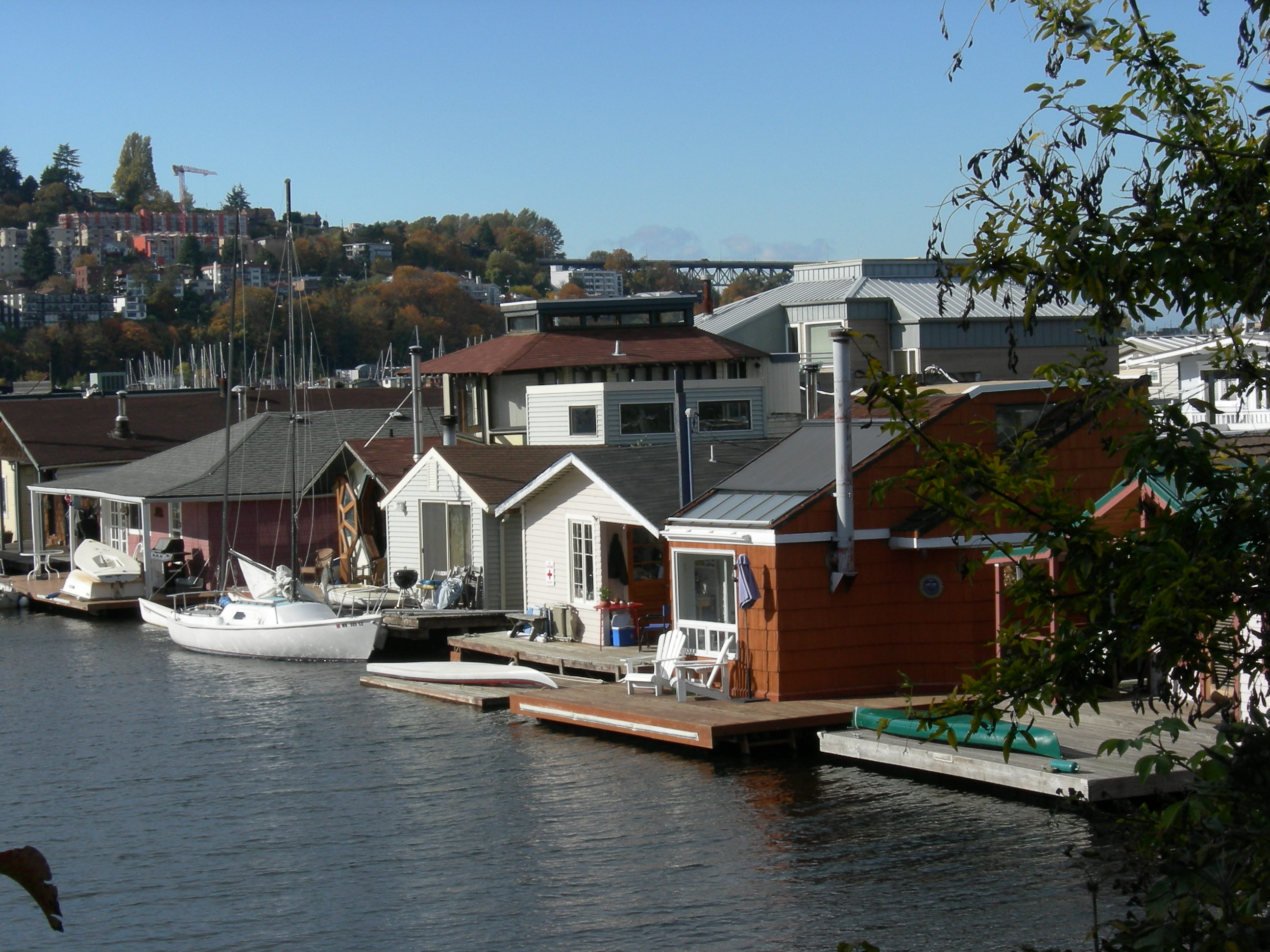 Floating homes (also known as houseboats) on the East shore of Lake Union, Seattle, Washington, USA. In the background are the northern tip of Queen Anne Hill and the Aurora Bridge.